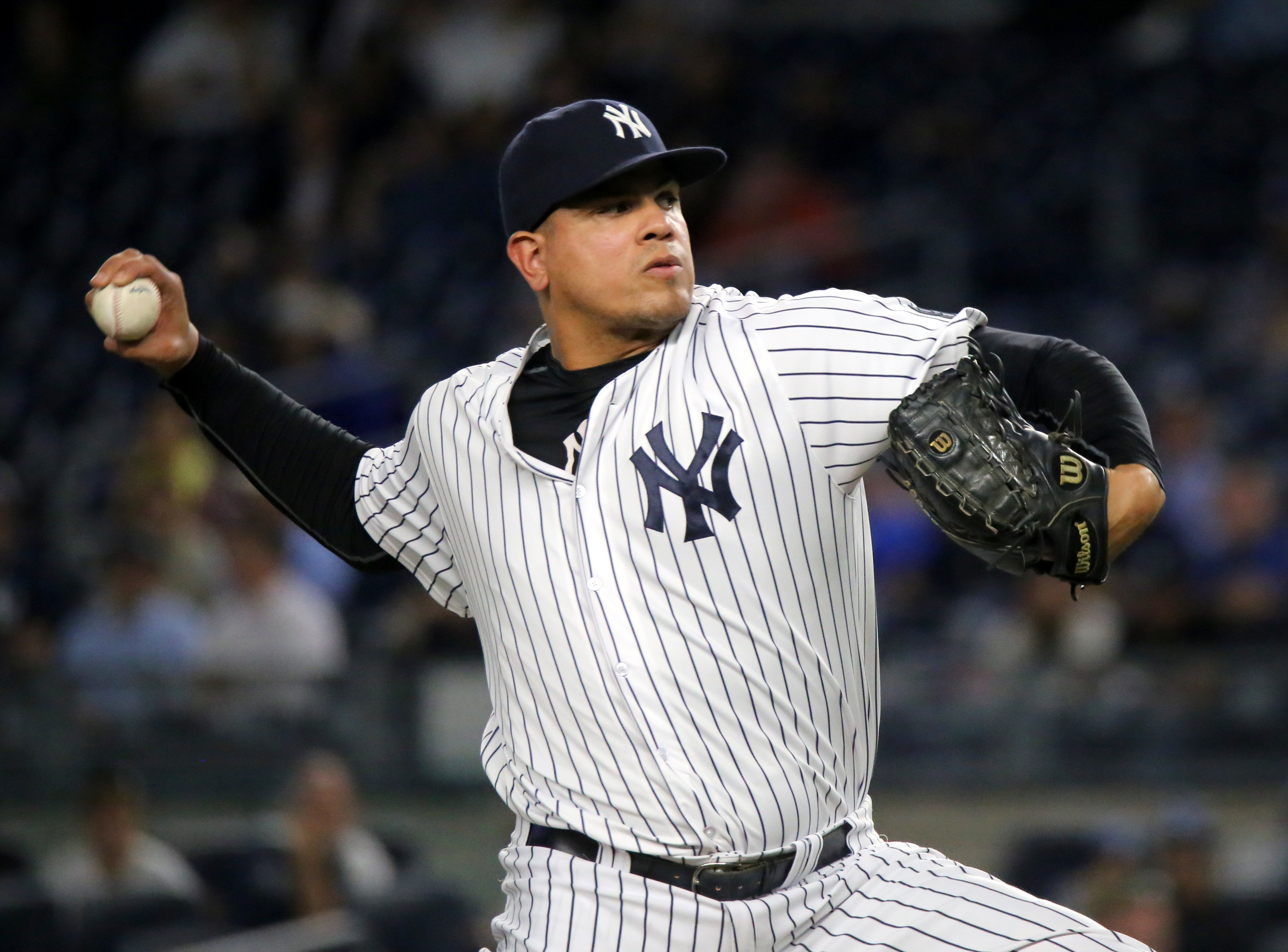 New York Yankees pitcher Dellin Betances during the ninth inning of a game against the Los Angeles Dodgers at Yankee Stadium in the Bronx, New York, NY on September 13, 2016